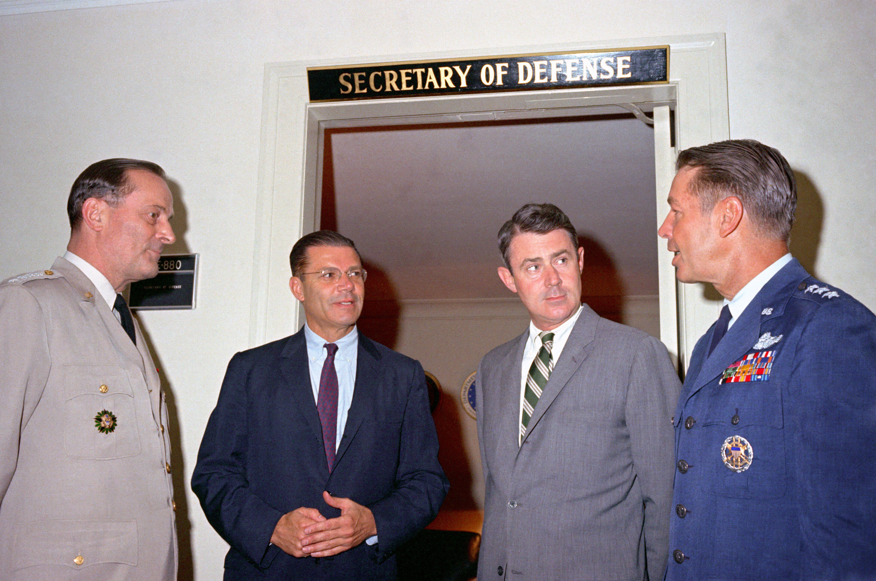 Secretary of Defense Robert S. McNamara holds a spontaneous conference outside his office at the Pentagon. From left to right: General Earle G. Wheeler, USA, chairman, Joint Chiefs of Staff (JCS); McNamara; Deputy Secretary of Defense Cyrus R. Vance; and Lieutenant General David A. Burchinal, USAF, director of the joint staff, JCS.